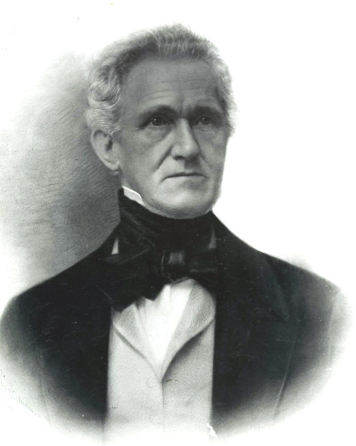 black and white original Portrait of Philip Richard Fendall II (1794-1868), a colored copy hangs in "Lee-Fendall House", Alexandria.